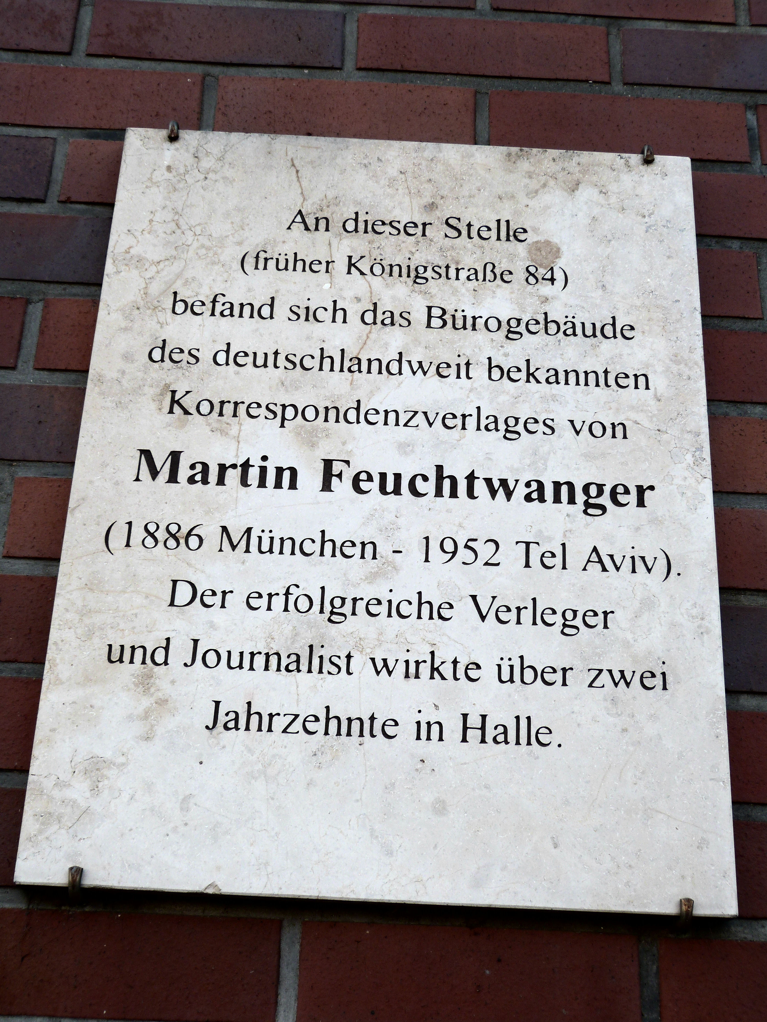 Plaque to the memory of Martin Feuchtwanger at the business house No. 10, Rudolf-Breitscheid-Strasse in Halle (Saale)